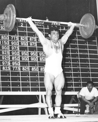 Mohammad Nassiri at the 1966 Asian Games